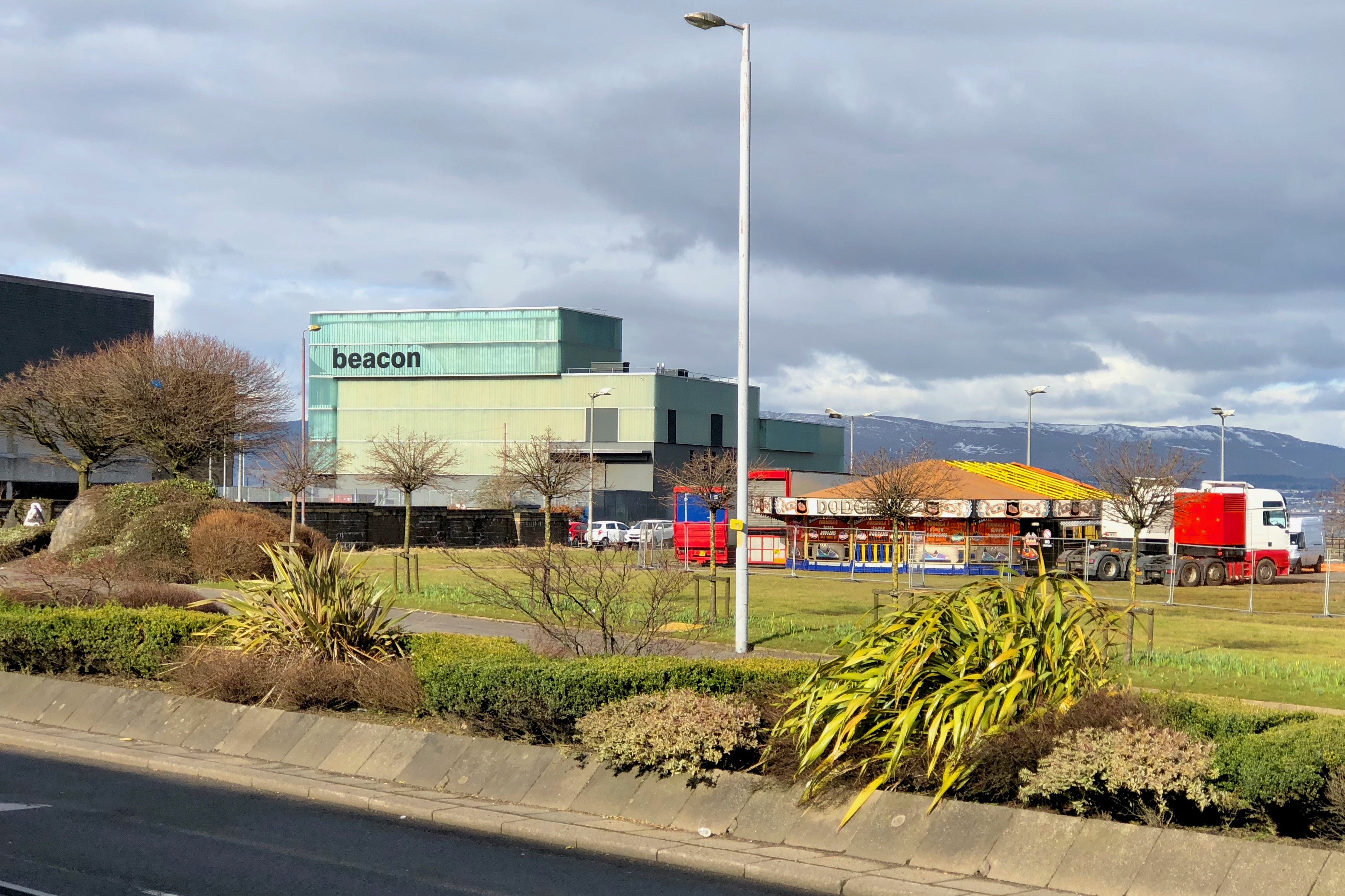 The Beacon Arts Centre at Customhouse Quay on the waterfront of Greenock in Scotland, seen from the A8 main road with a temporary funfair on the former East India Harbour docklands site to the right of the arts centre.